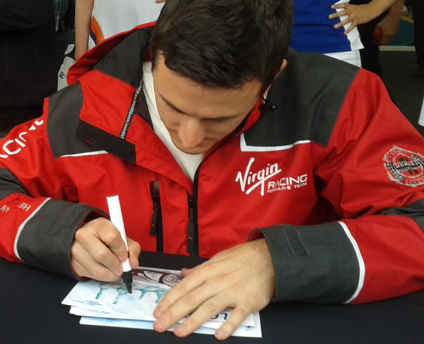 Fabio Leimer signing autographs for Formula E at Battersea Park circuit, June 2015